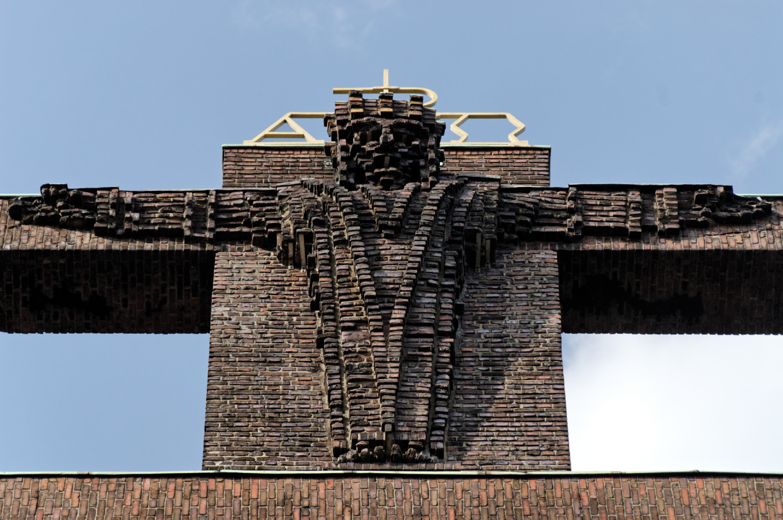 Cross on Holy Cross Church in Gelsenkirchen-Ückendorf, Germany